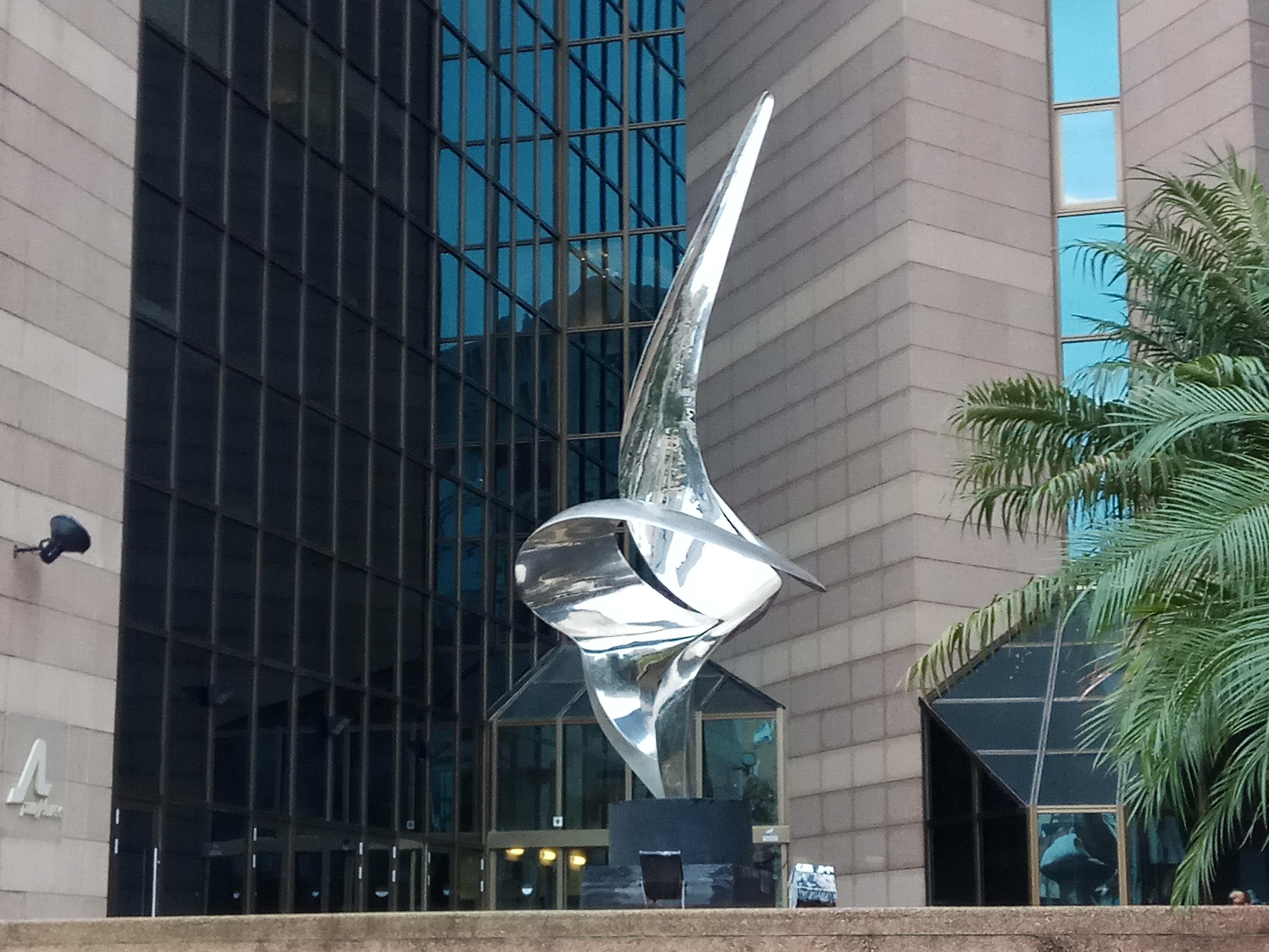 The takeoff sculpture in Ramat Gan